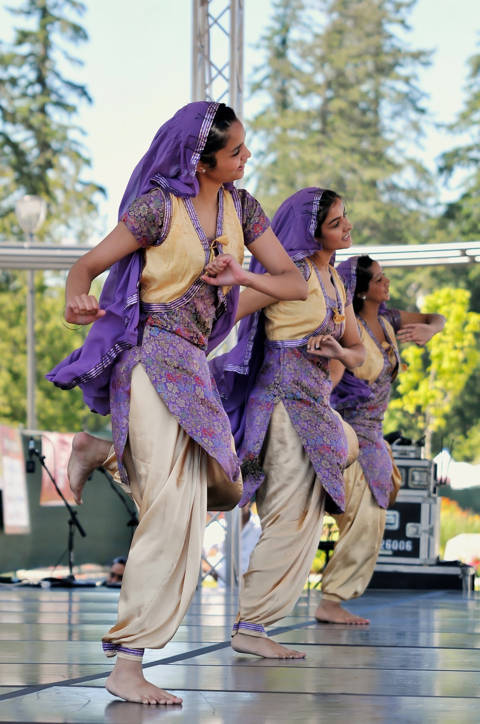 Bhangra folk dance, India origins, performed at Surrey Fusion Festival 2010